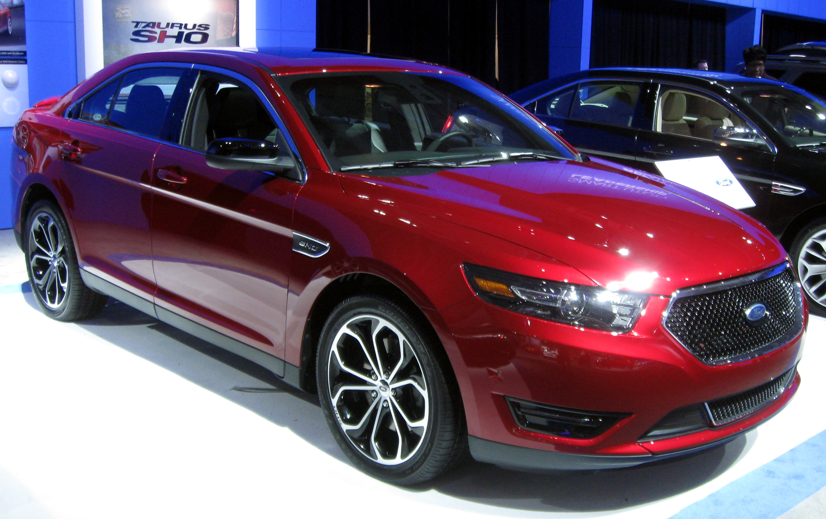 2013 Ford Taurus photographed in Washington, D.C., USA.